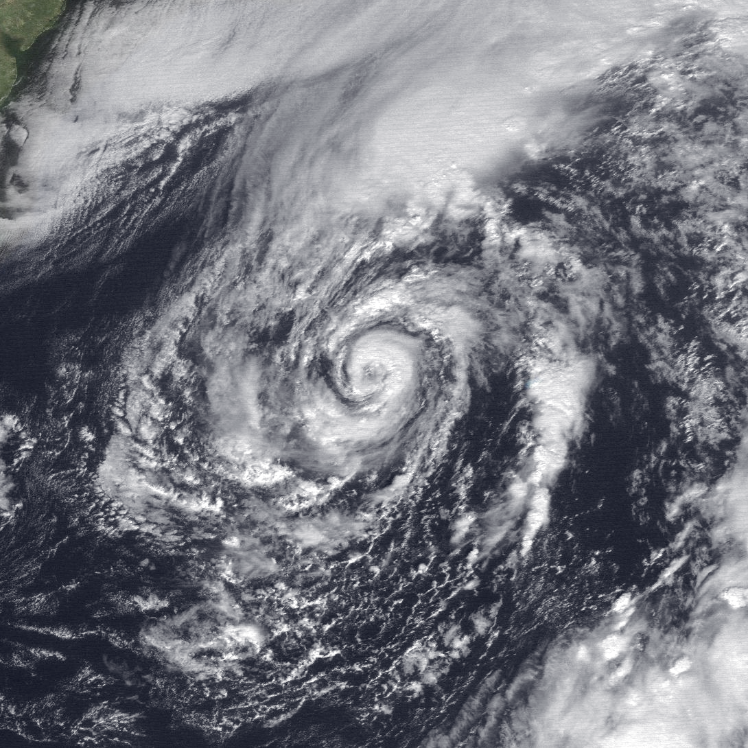 Hurricane Grace intensifying off the East Coast of the United States on October 28, 1991